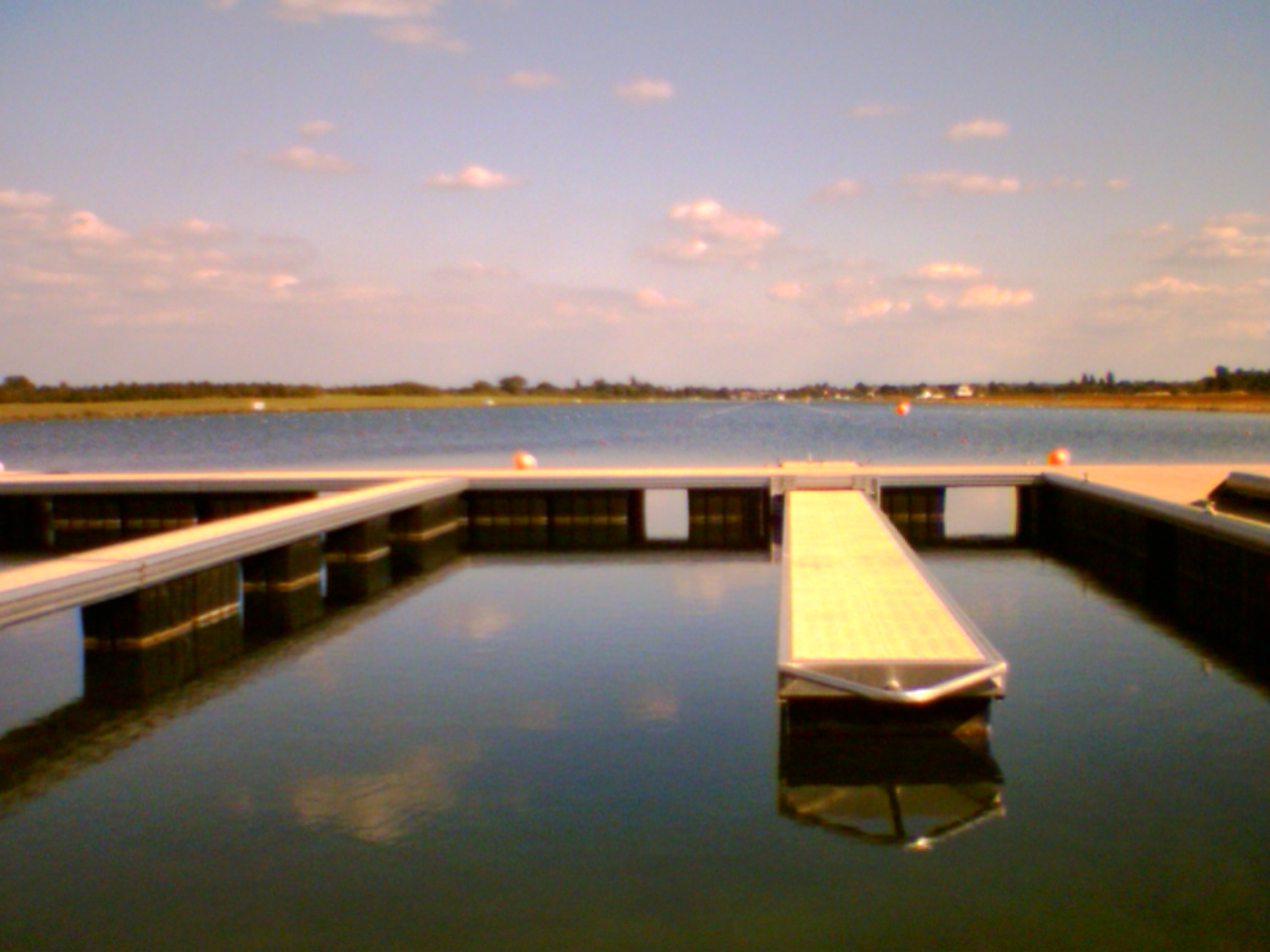 Location of the rowing events at the London 2012 Olympics